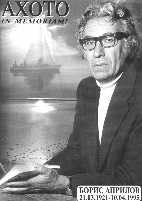 Boris Aprilov in home, with his new just printed book and the yacht "Ahaswer" in his mind...